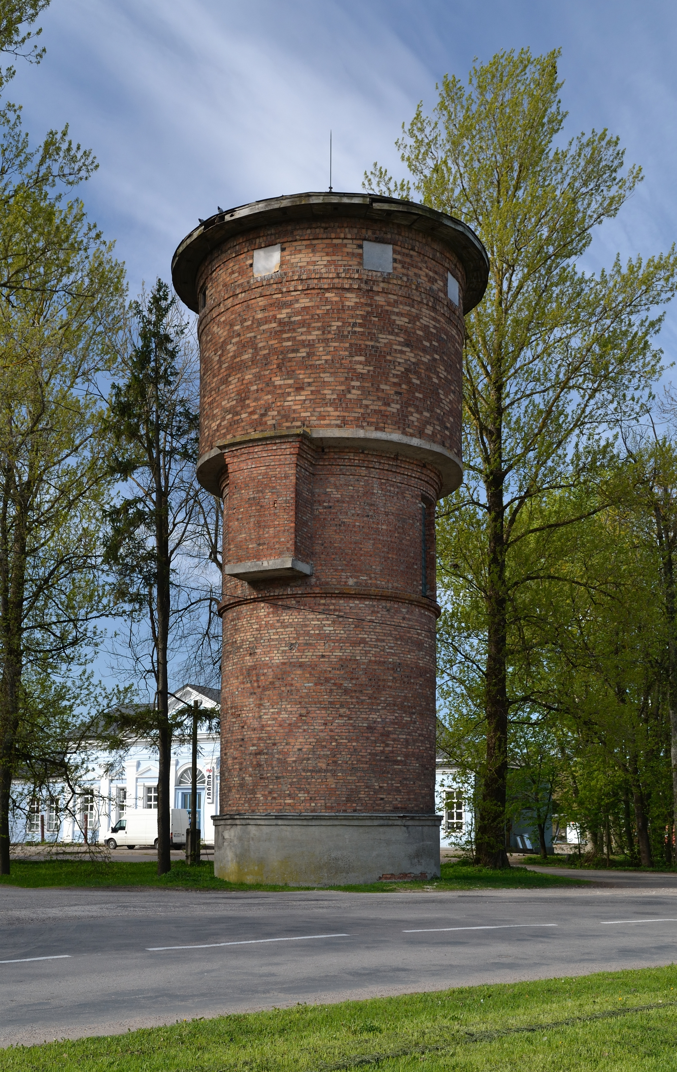 Jõgeva water tower